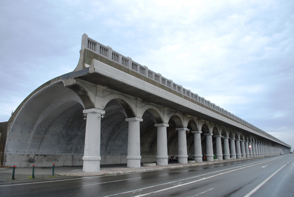 Breakwater dome at Wakkanai